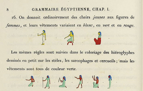 Page 8 from Grammaire égyptienne by Jean-François Champollion.